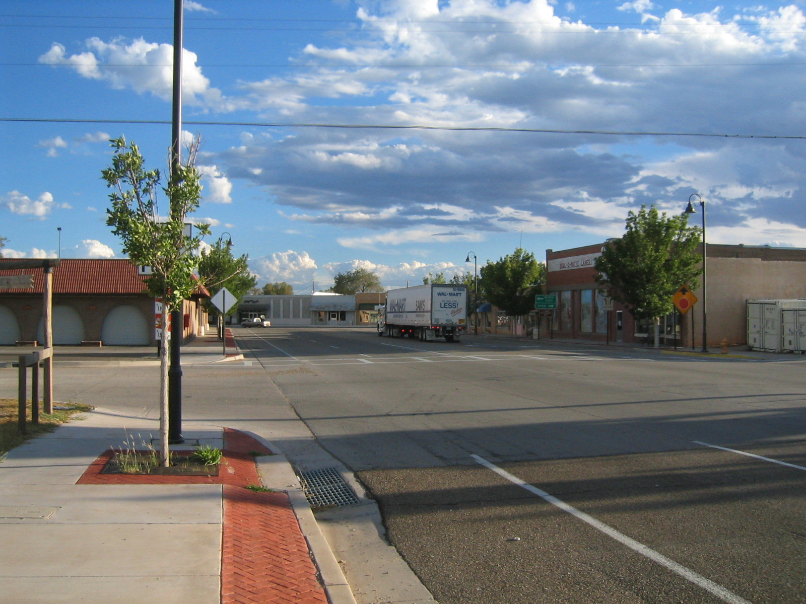 Fort Sumner, New Mexico. Looking south on 4th Street (U.S. Route 84) towards Sumner Avenue (U.S. Route 60)